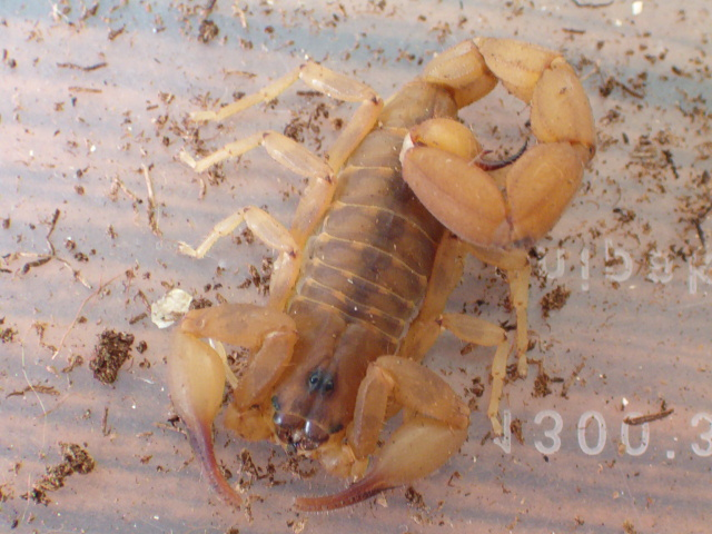 My own Odonturus dentatus by 82.233.123.121.